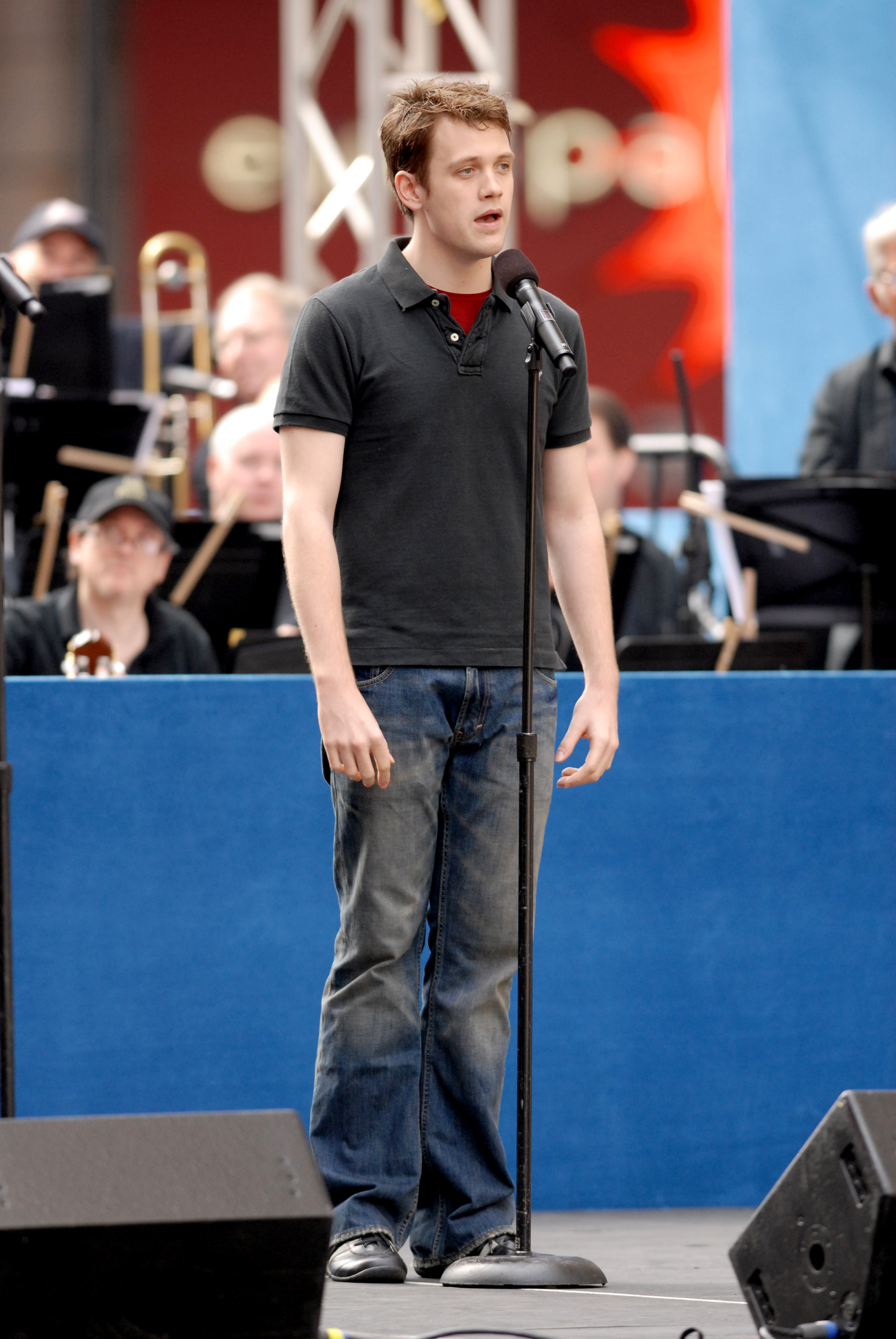 Caren Lyn Manuel, Michael Arden and the cast of The Times They Are A Changin' perform "Blowin' In the Wind" at Broadway on Broadway, September 10th 2006.